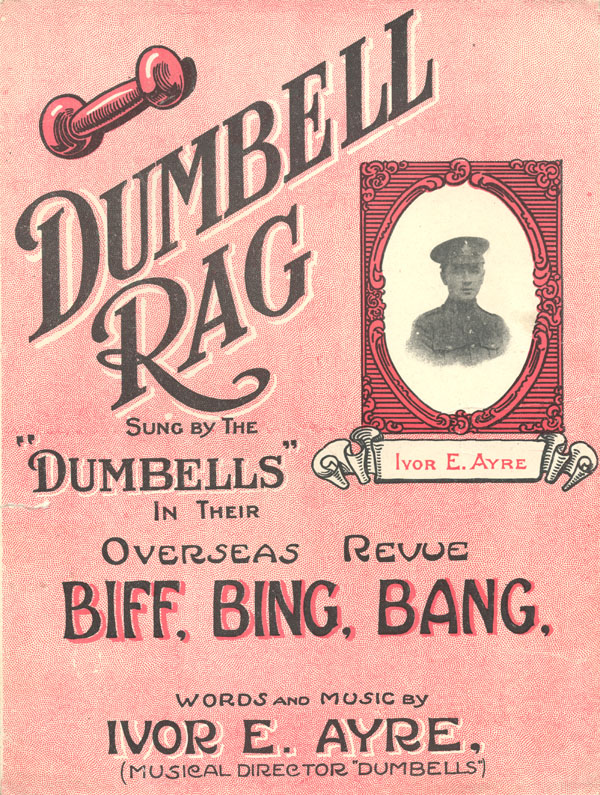 Sheet Music Cover, The Dumbell Rag